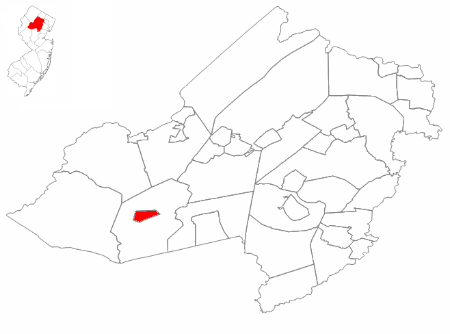 Position of Chester Borough (highlighted in red) in Morris County. Morris County's position in New Jersey is in turn highlighted in red.